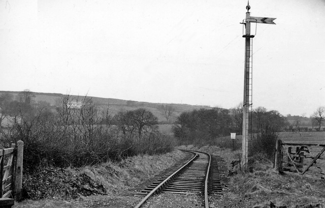 Site of Berwig Halt, Near Minera, Wrexham/Wrecsam, Great Britain. View eastwards, towards Wrexham; terminus of GWR branch from Wrexham via Brymbo. Passenger service ceased 1/1/31, but line open for goods until 2/11/64. Note the Fixed Distant signal.